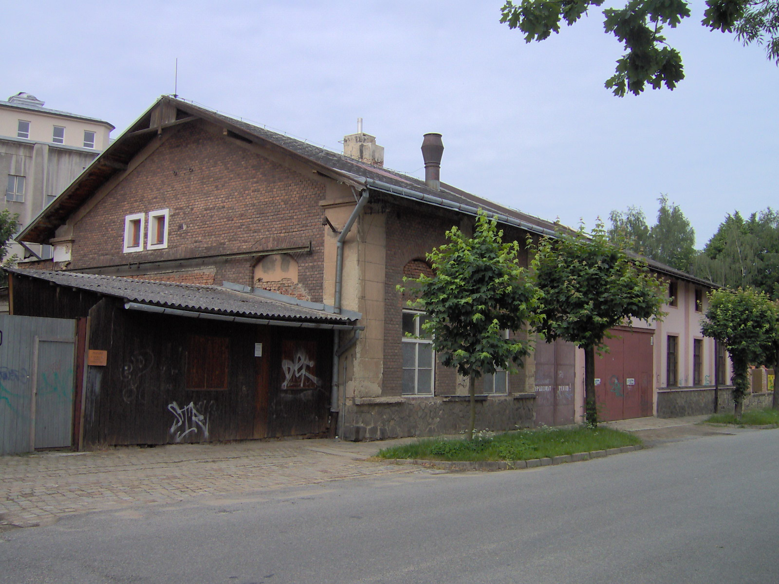 Ex-tram a later trolleybus depot in Jihlava